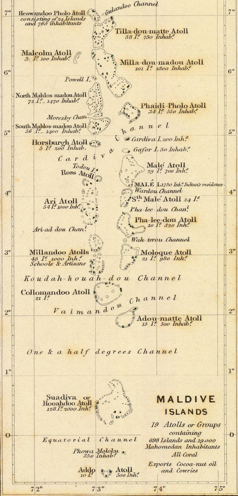 1844 map of the Maldives, created after the survey of Robert Moresby and F. T. Powell